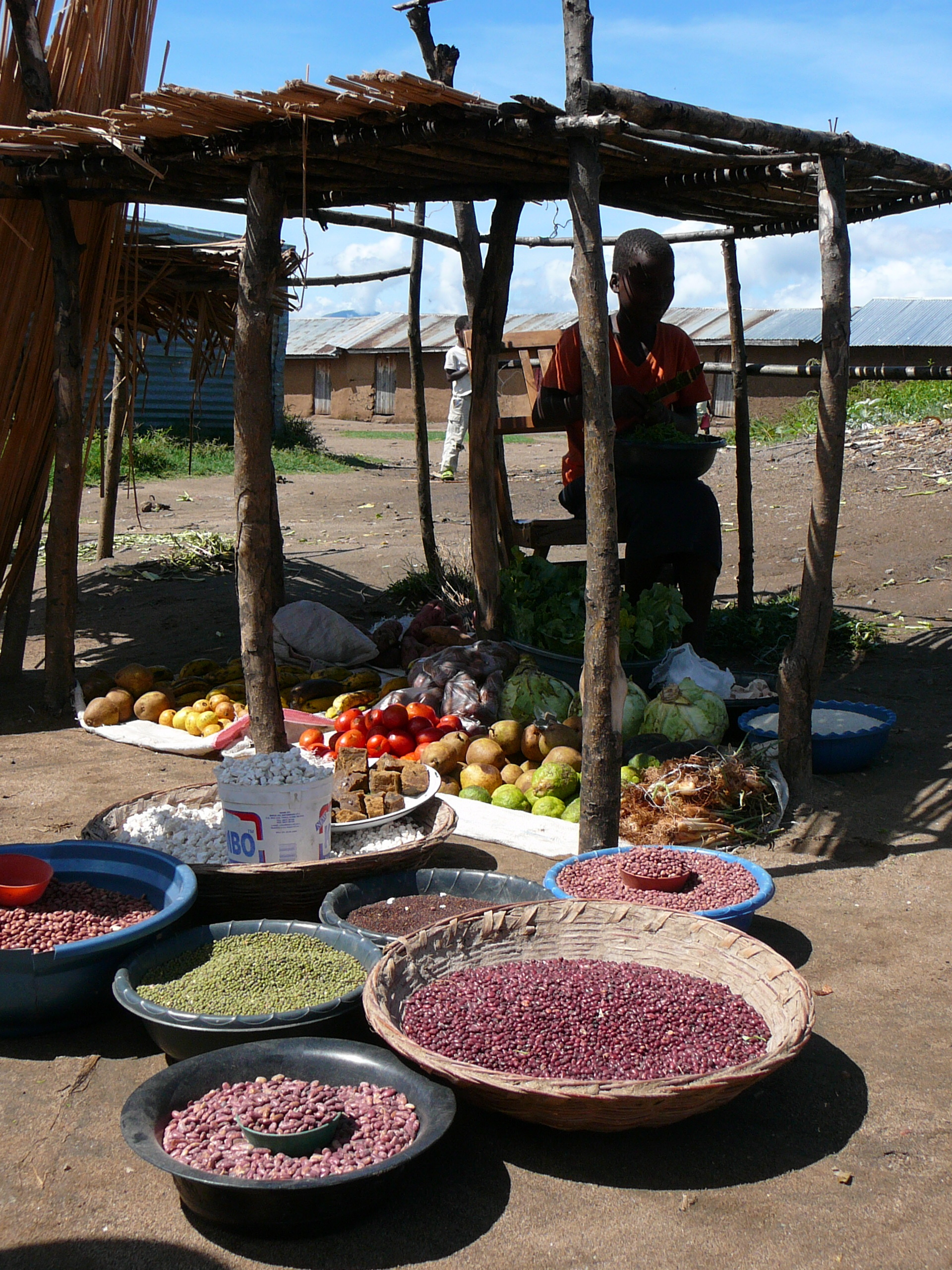 Rusinga Island, the Market - Lake Victoria, Kenya